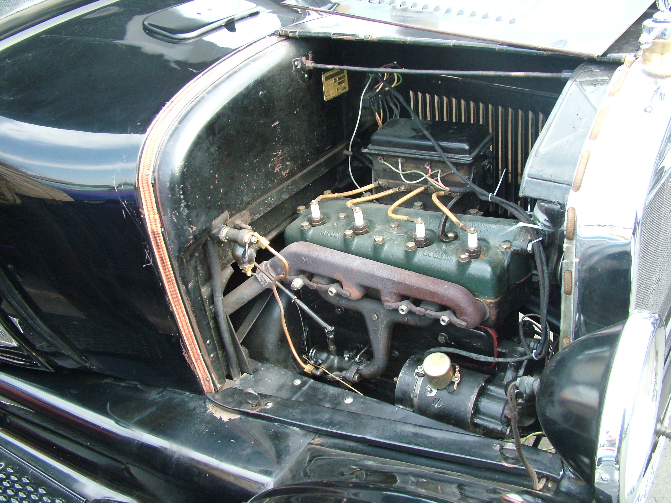 2007 Season opening of hungarian Ford enthusiasts